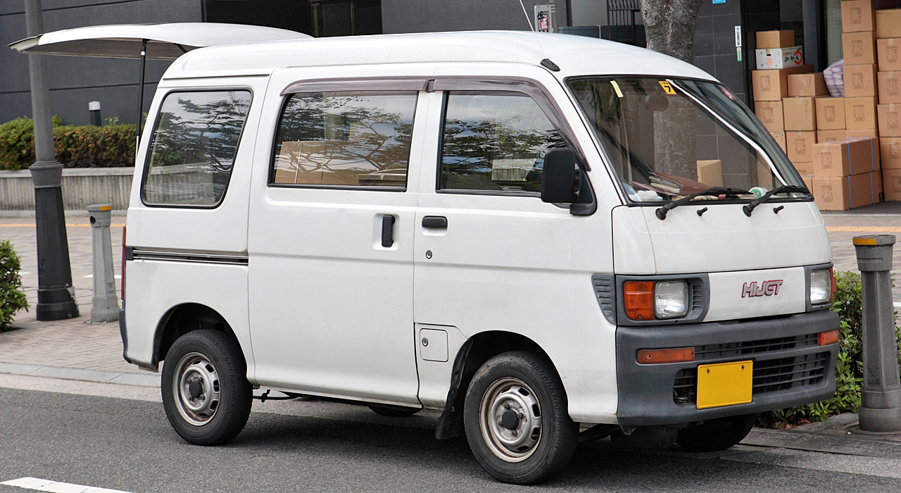 Daihatsu Hijet Van ( 8th generation )